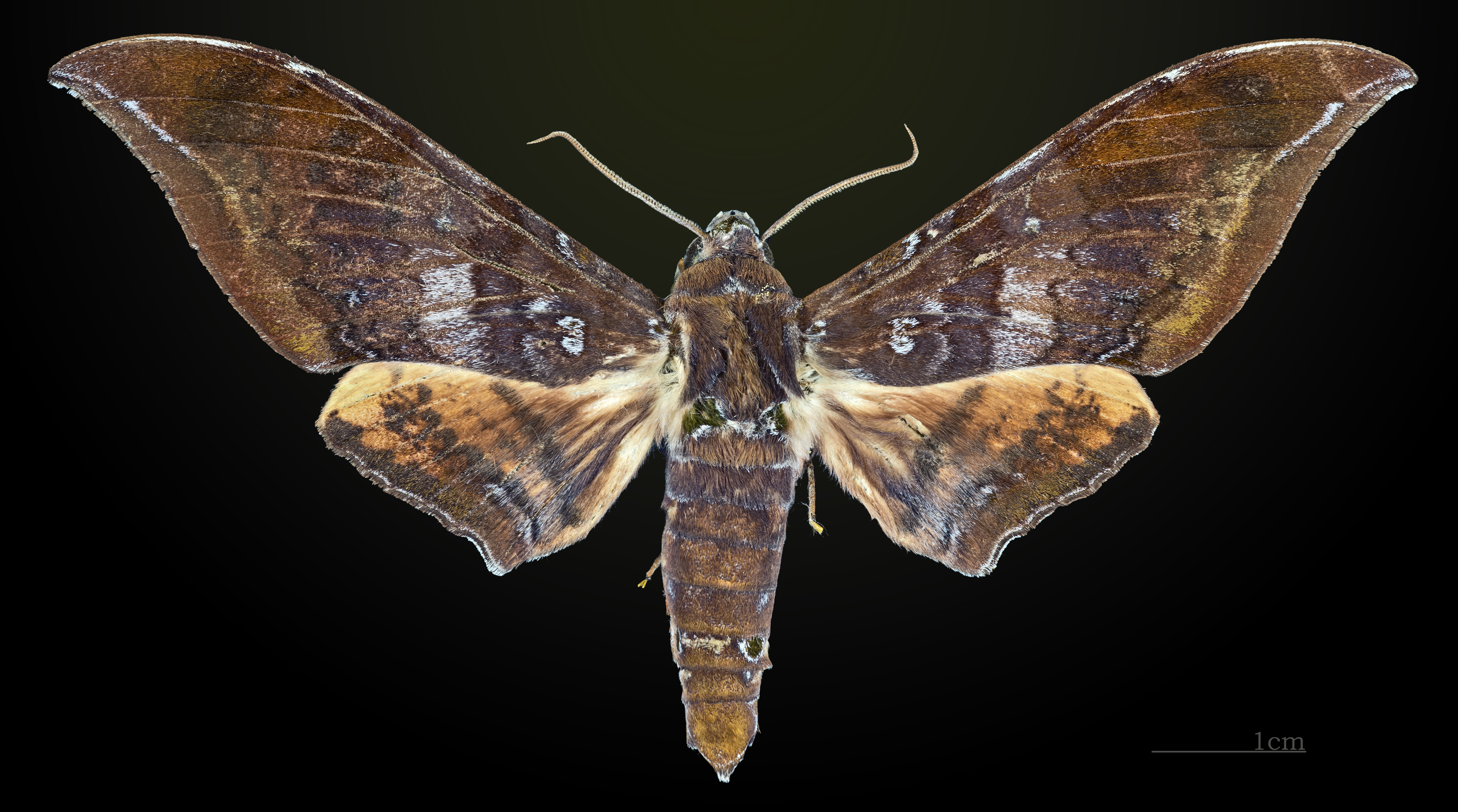 Ambulyx bakeri - Dorsal side Collection of the Mathematician Laurent Schwartz